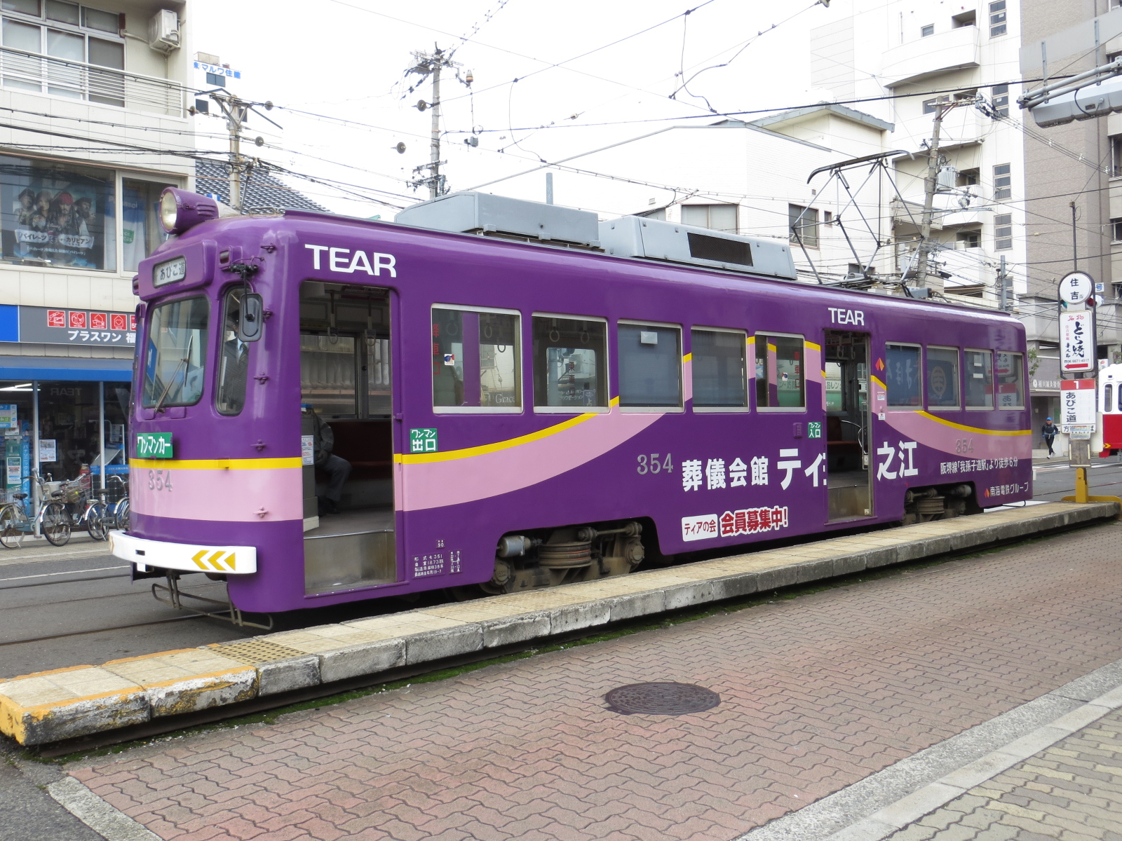 Hankai Tramway #354 in Sumiyoshi Station.